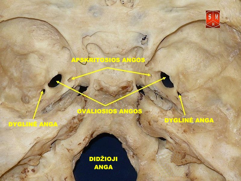 Base of skull